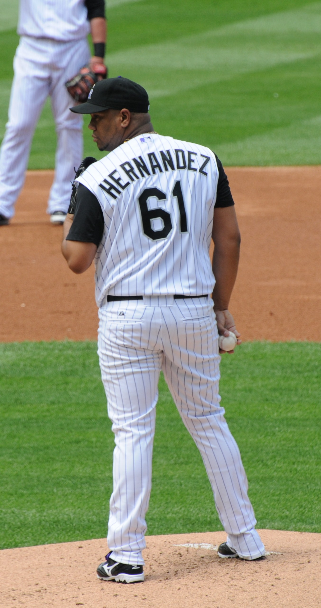 Description Liván Hernández, a major league baseball pitcher. He is pitching for the Colorado Rockies in this image DateSourceI created this work entirely by myself.AuthorOnetwo1 (talk) 01:35, 11 August 2008 . . Onetwo1 . . 1,354×2,566 (548 KB) Liván Hernández, a major league baseball pitcher. He is pitching for the Colorado Rockies in this image